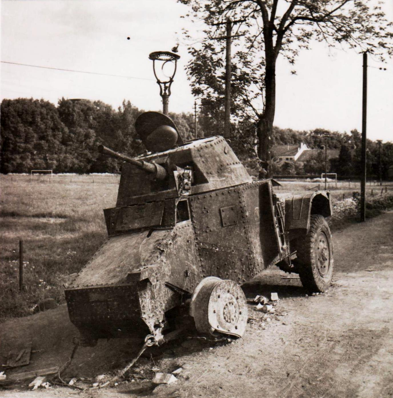 Destroyed AMD Panhard (M-7635, 3e régiment d'automitrailleuses) near Luxembourg, May 1940